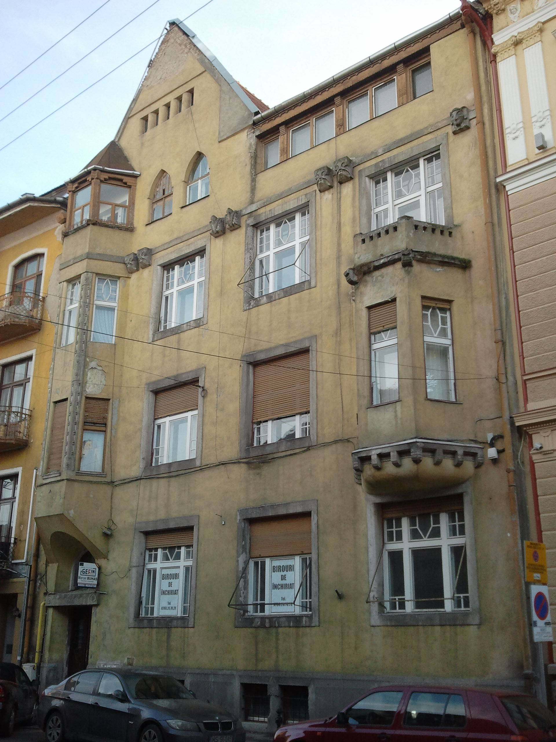 Fodor House - Oradea, Romania